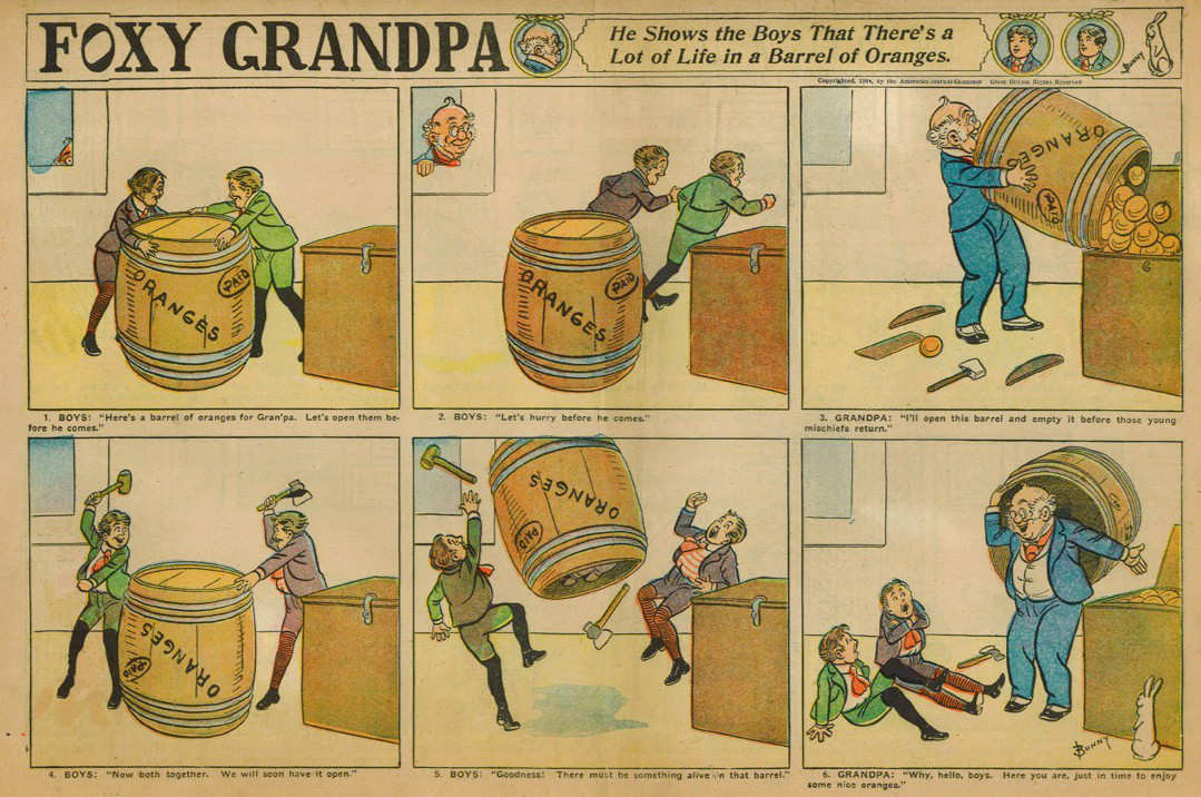 Copy of the Foxy Grampa cartoon strip from 1904.